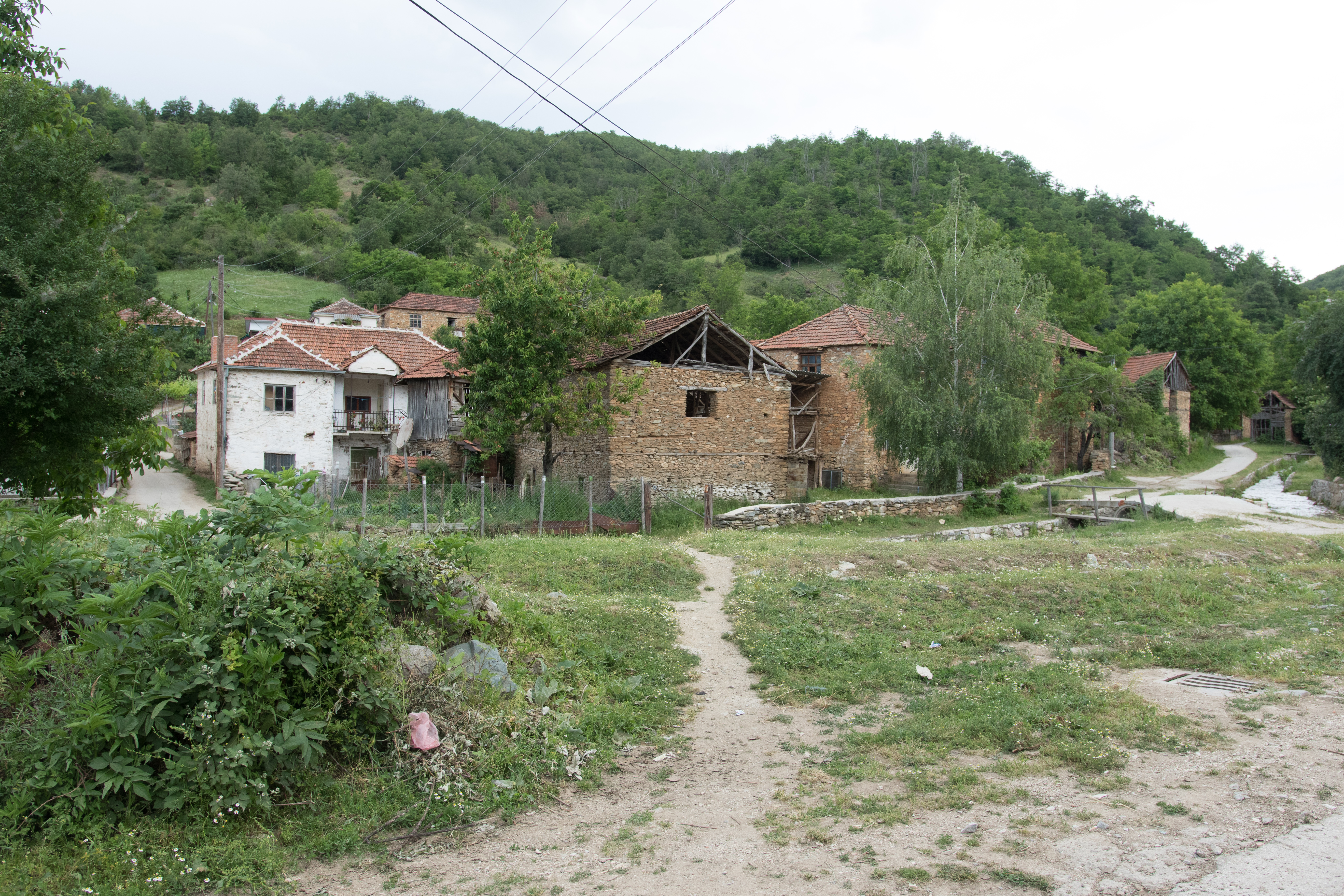 View of the village Sopotnica